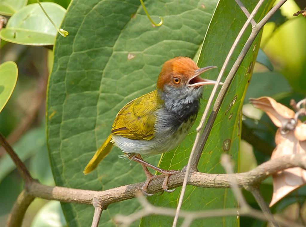 Dark-necked Tailorbird (Orthotomus atrogularis)